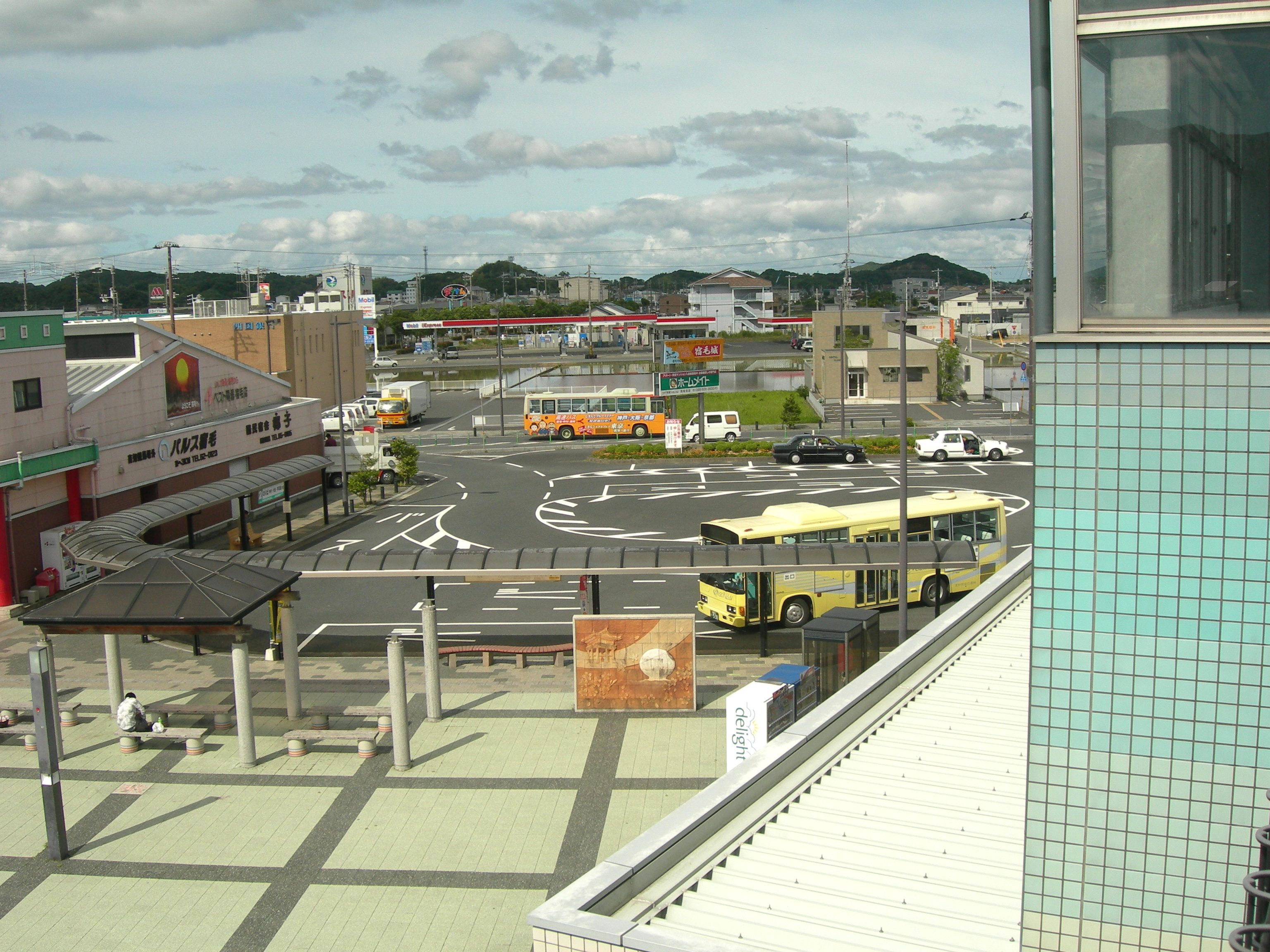 Square at Sukumo Station